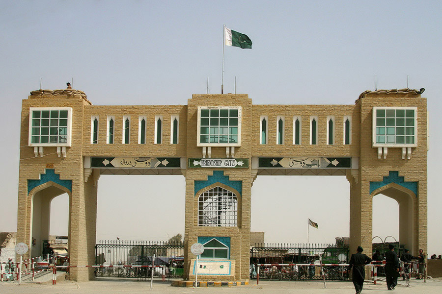 Pak Afghan friendship gate Chaman city.